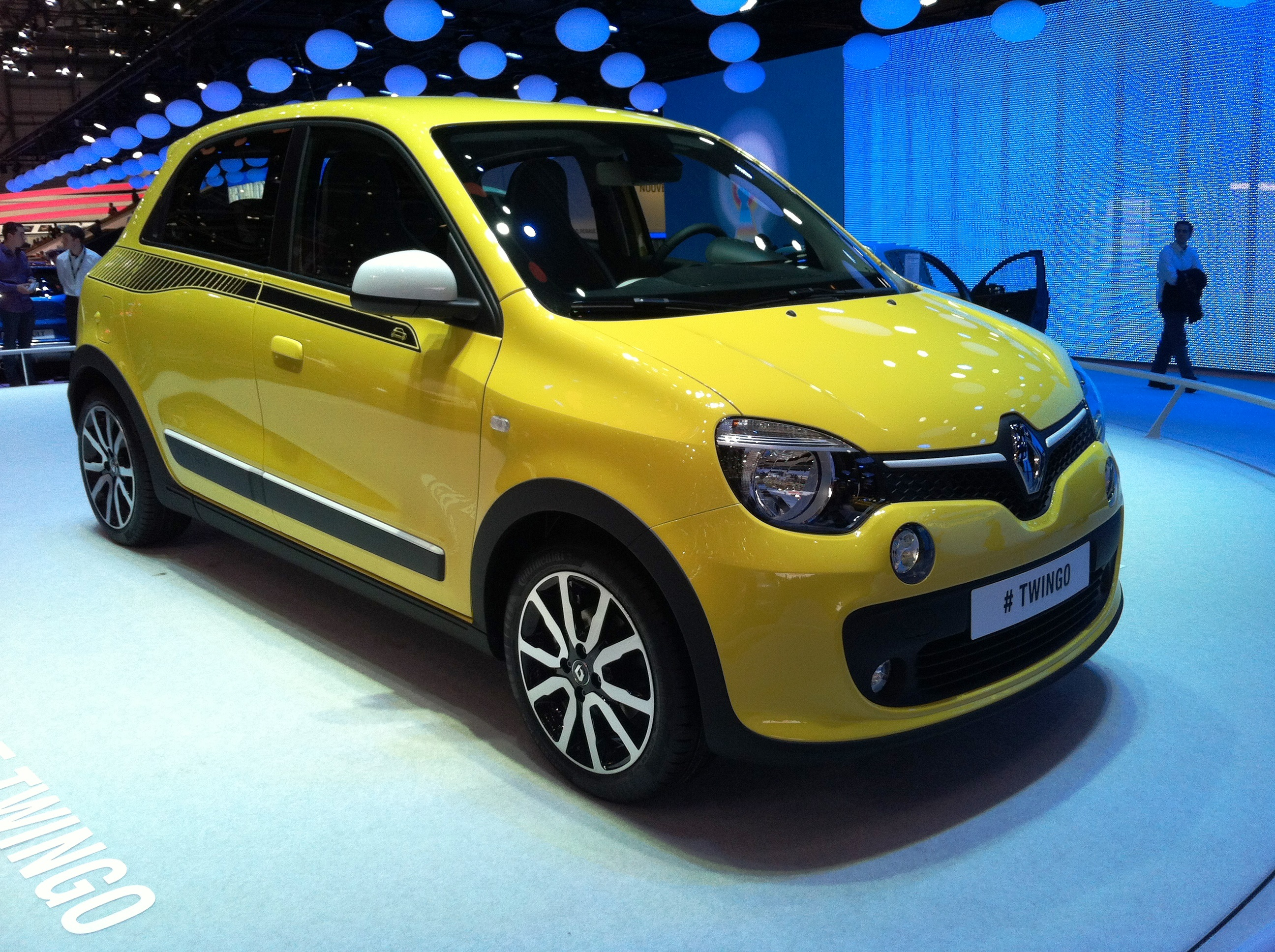 Renault Twingo III at Geneva Motor Show 2014